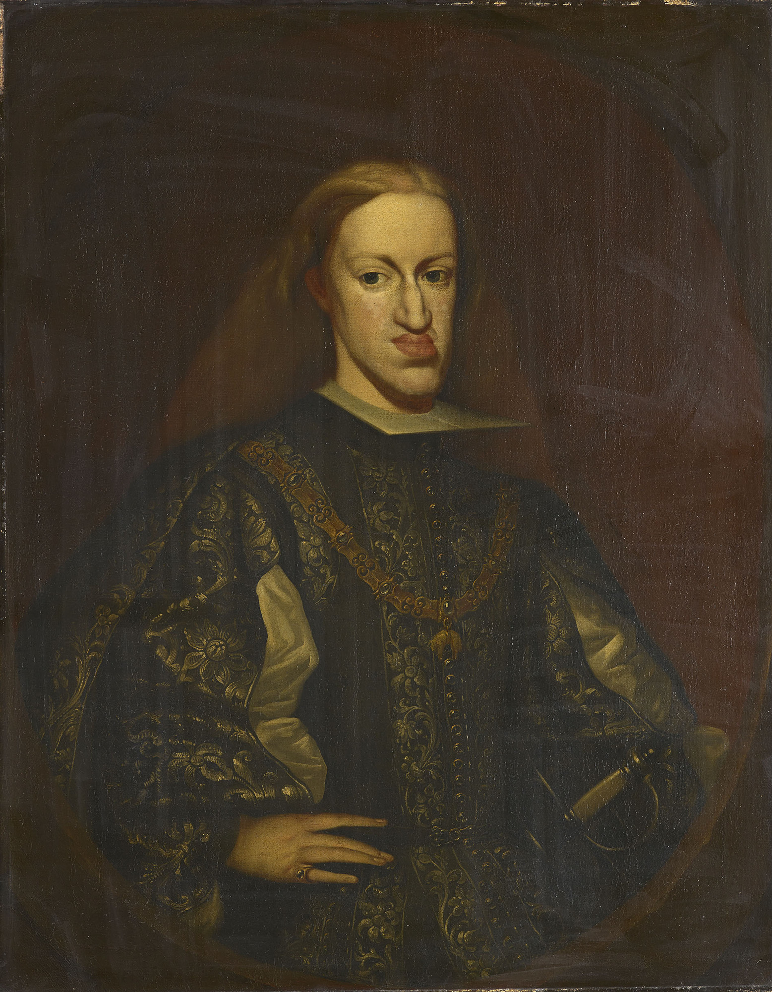 This portrait of Carlos II of Spain dates from around 1680, when the king was nineteen, it appears to be based on the painting by Claudio Coello (1642-1693), now in the Museu Nacional d'Art de Catalunya, Barcelona (inv. no. 024227-000).